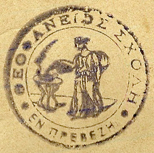 The seal of the Theofaneios School of Preveza, from an envelop of 12 November 1911.